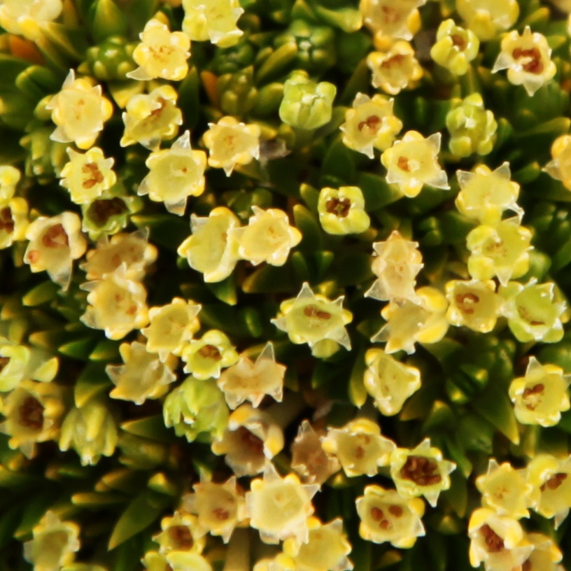 Antarctic Pearlwort at St. Andrews Bay, South Georgia.